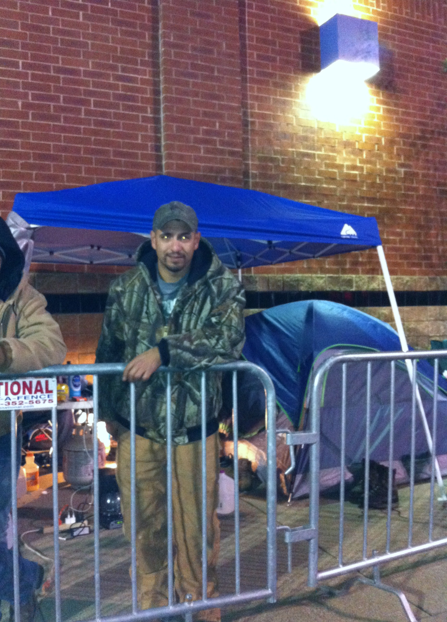 A man waits outside a 'Best Buy' retail store in Tyler, Texas (US) awaiting the store's special Black Friday opening event.